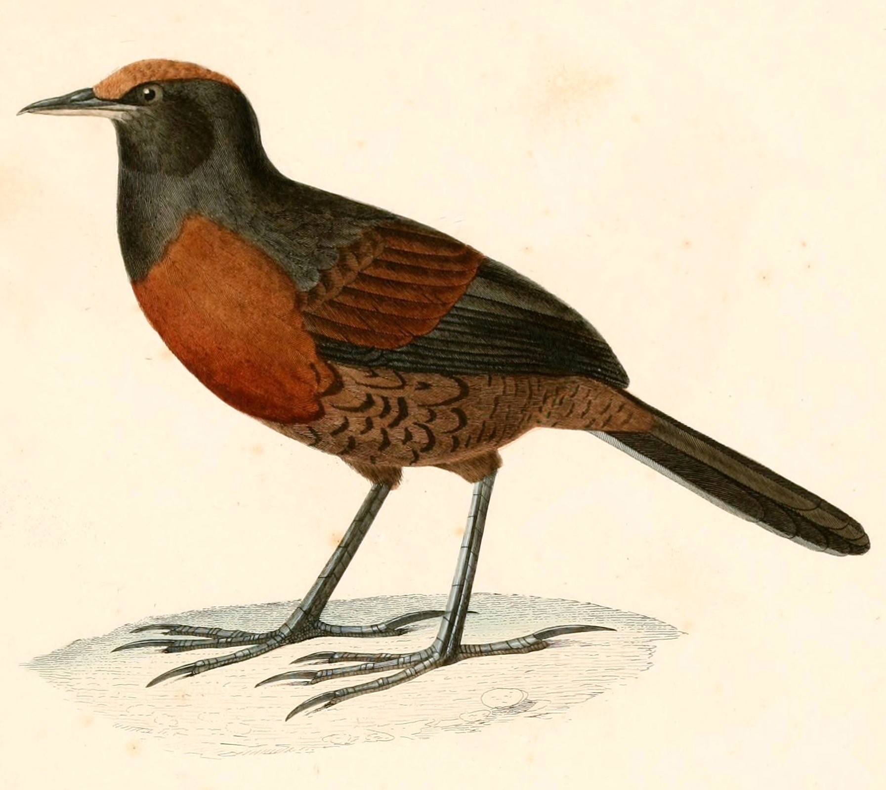 « Megalonix ruficeps » = Pteroptochos tarnii (Black-throated Huet-huet)